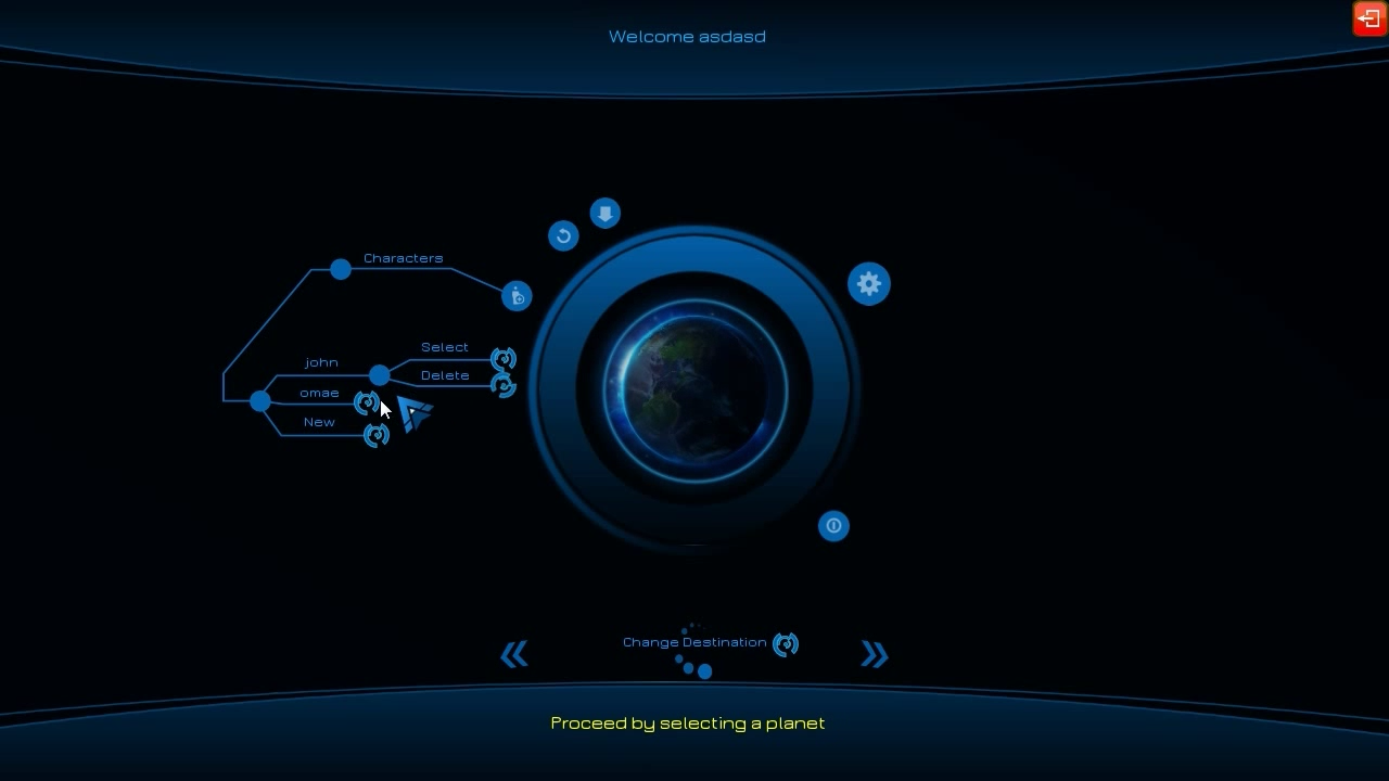 Screenshot of CEGUI example game menu depicting the library capabilities.